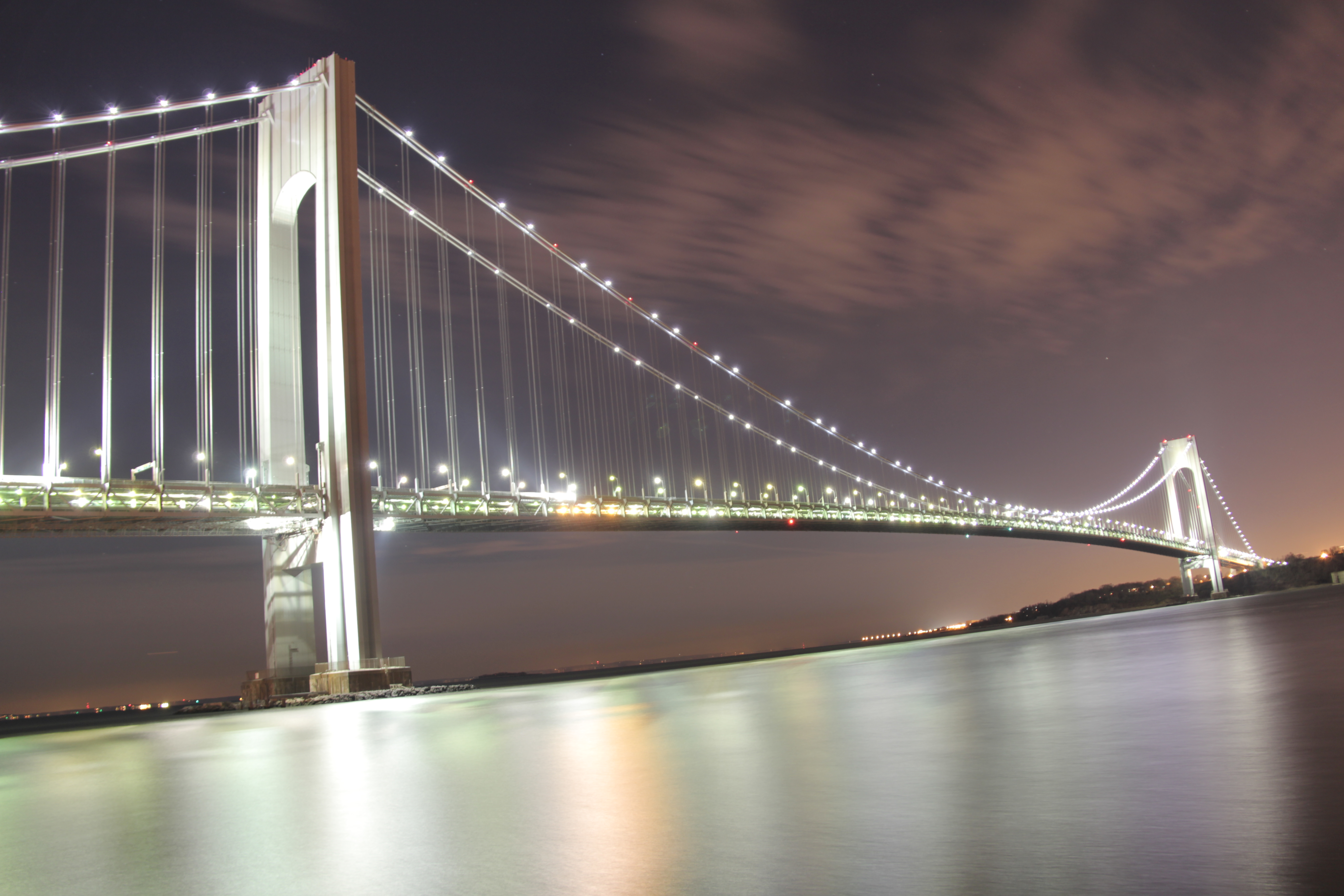 Verrazano-Narrows Bridge from brooklyn at night, right next to the water.